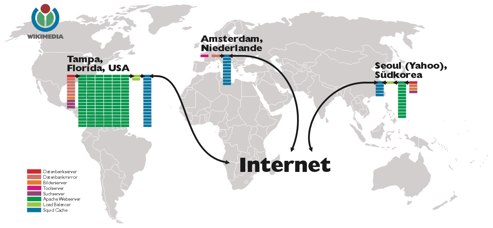 Diagram of the Wikimedia servers in 2006. Labels in German, see File:Wikimedia_Servers.svg for an English version.